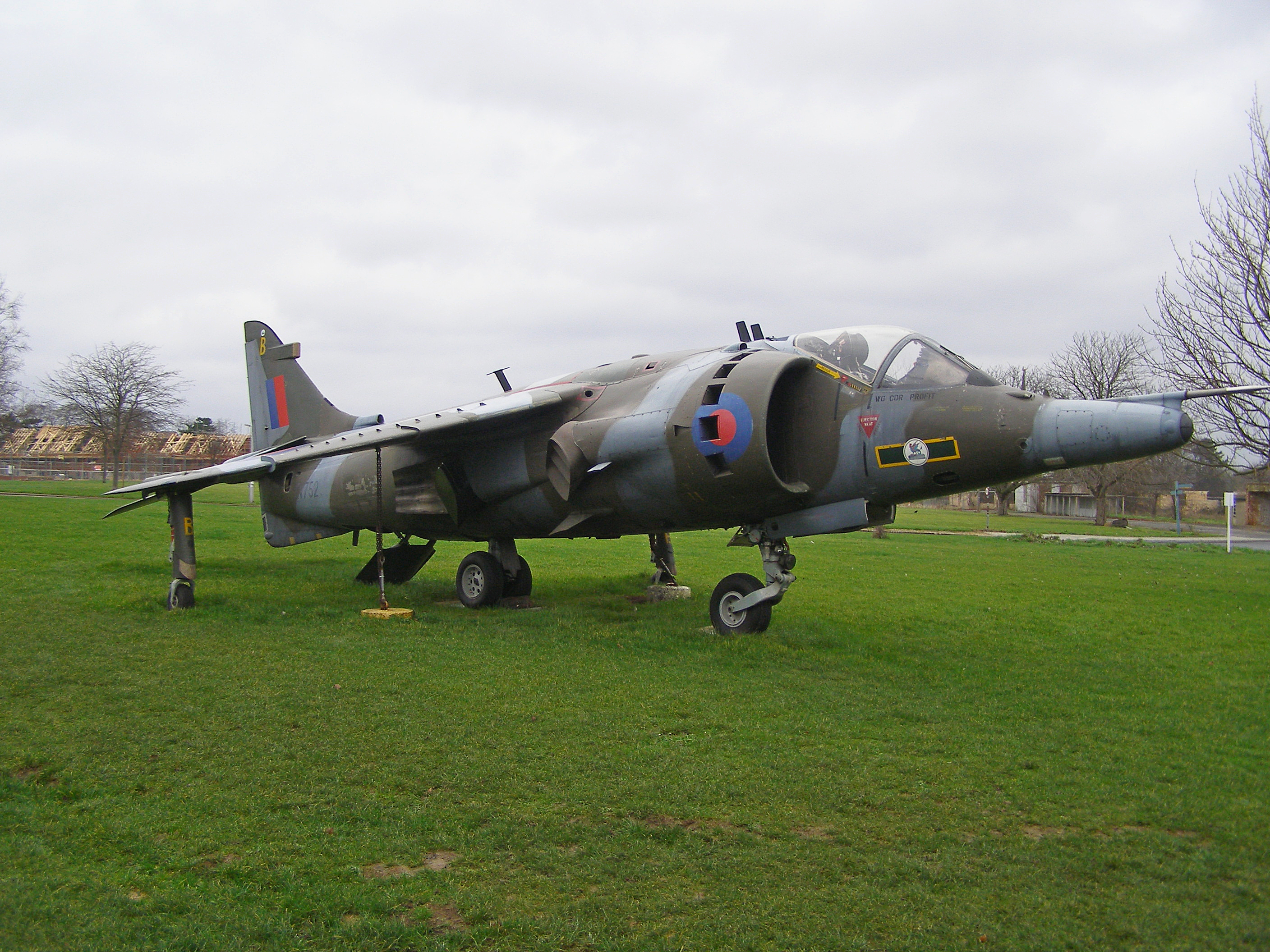 Harrier GR3 serial XV752 on display at Bletchley Park, England